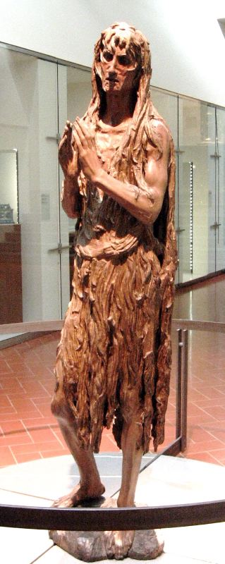 Donatello's sculpture of Maria Magdalena, Museum Opera del Duomo, Florence, Italy.